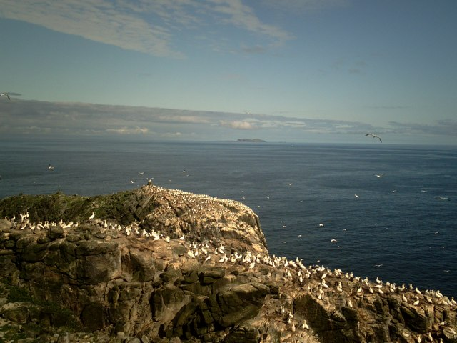 North Rona from the Island of Sulasgeir 14 miles from Sulasgeir due east is the Island of North Rona